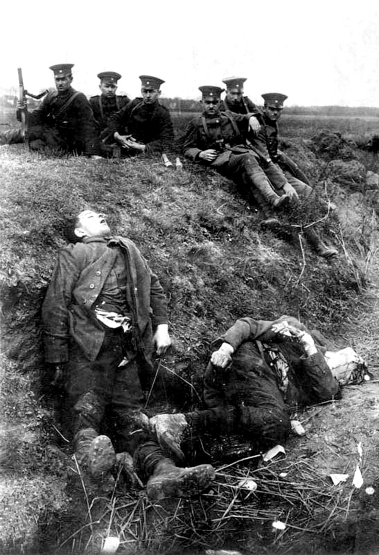 Brutal Civil war — Good Friday 1920. At the Causeway in Möllen. At the Top there is Noske, at the Bottom there are shoot Red Army Soldiers.